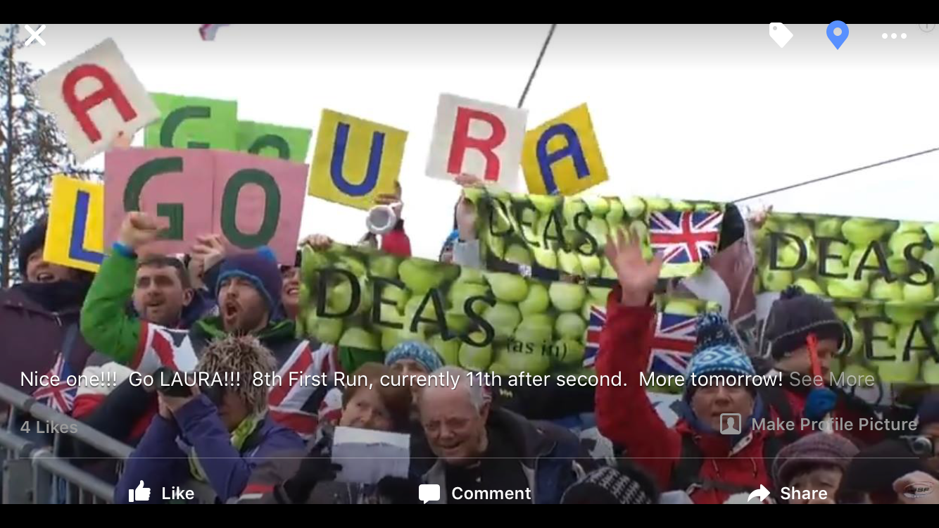 Supporting Fans in Igls - Feb 2016